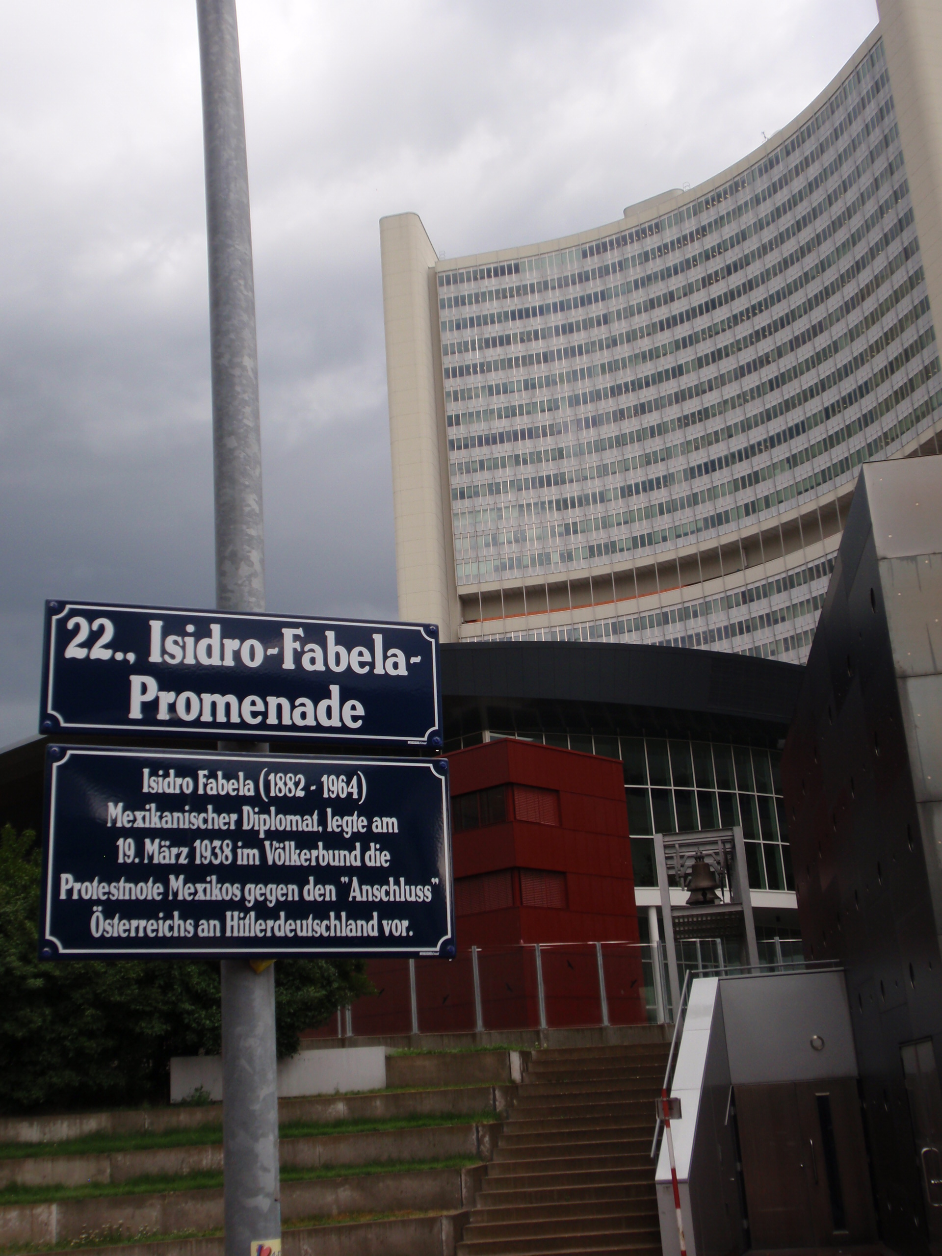 street named after the mexican diplomat Isidro Fabela in Vienna, in the UNO-City-complex